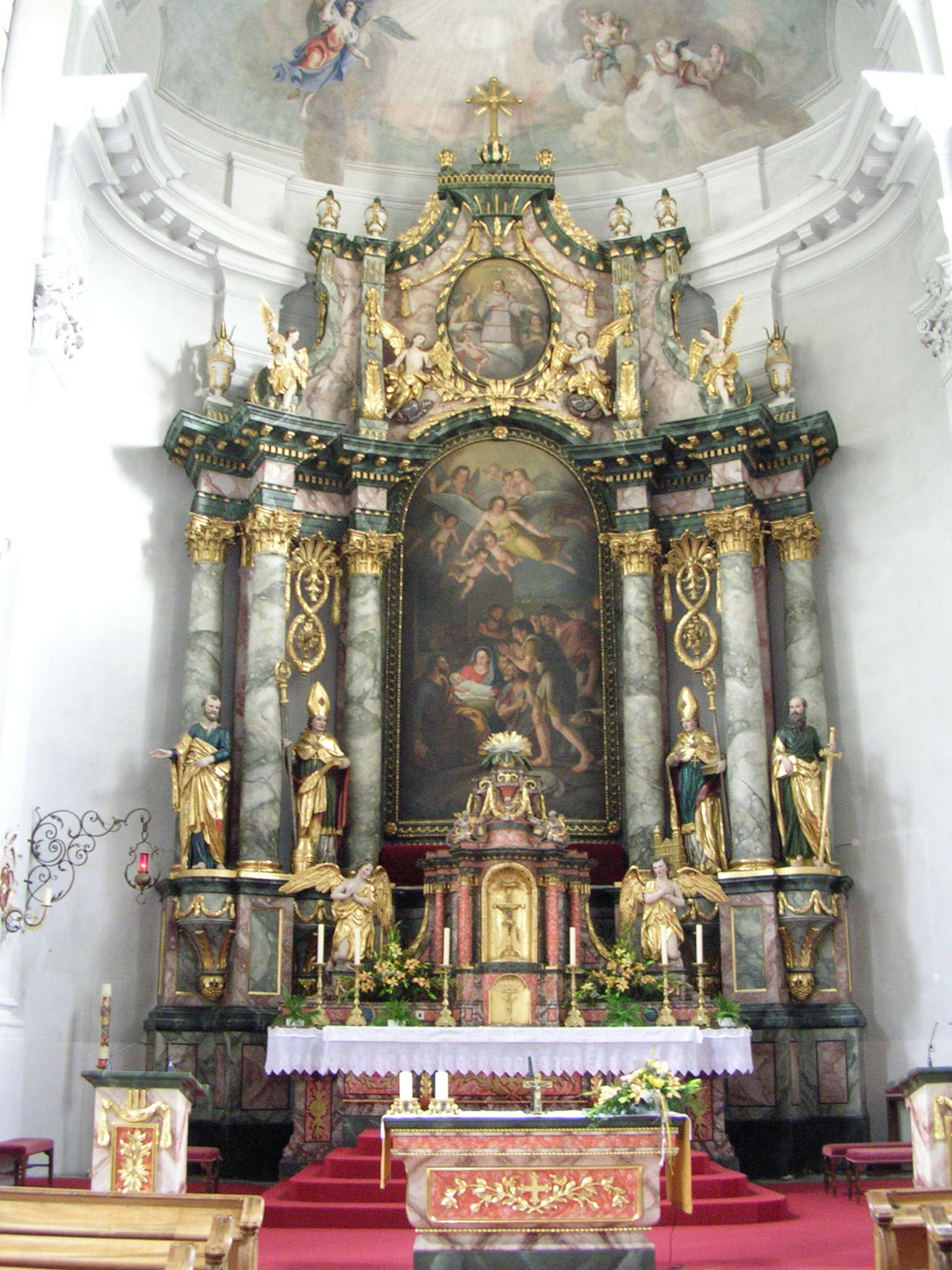 Altar of the parish church in Matrei in Osttirol